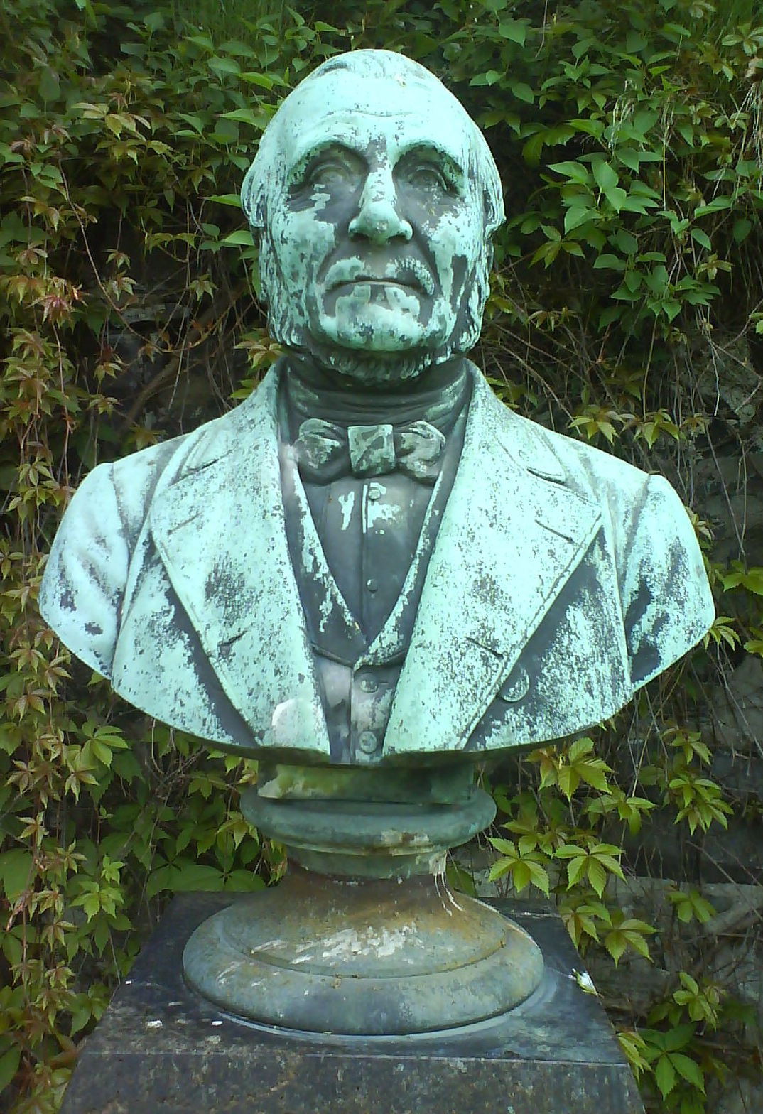 Grave of goldsmith Jacob Ulrich Holfeldt Tostrup (1806–1890) at Vår Frelsers gravlund in Oslo, Norway. Bust by Brynjulf Bergslien.